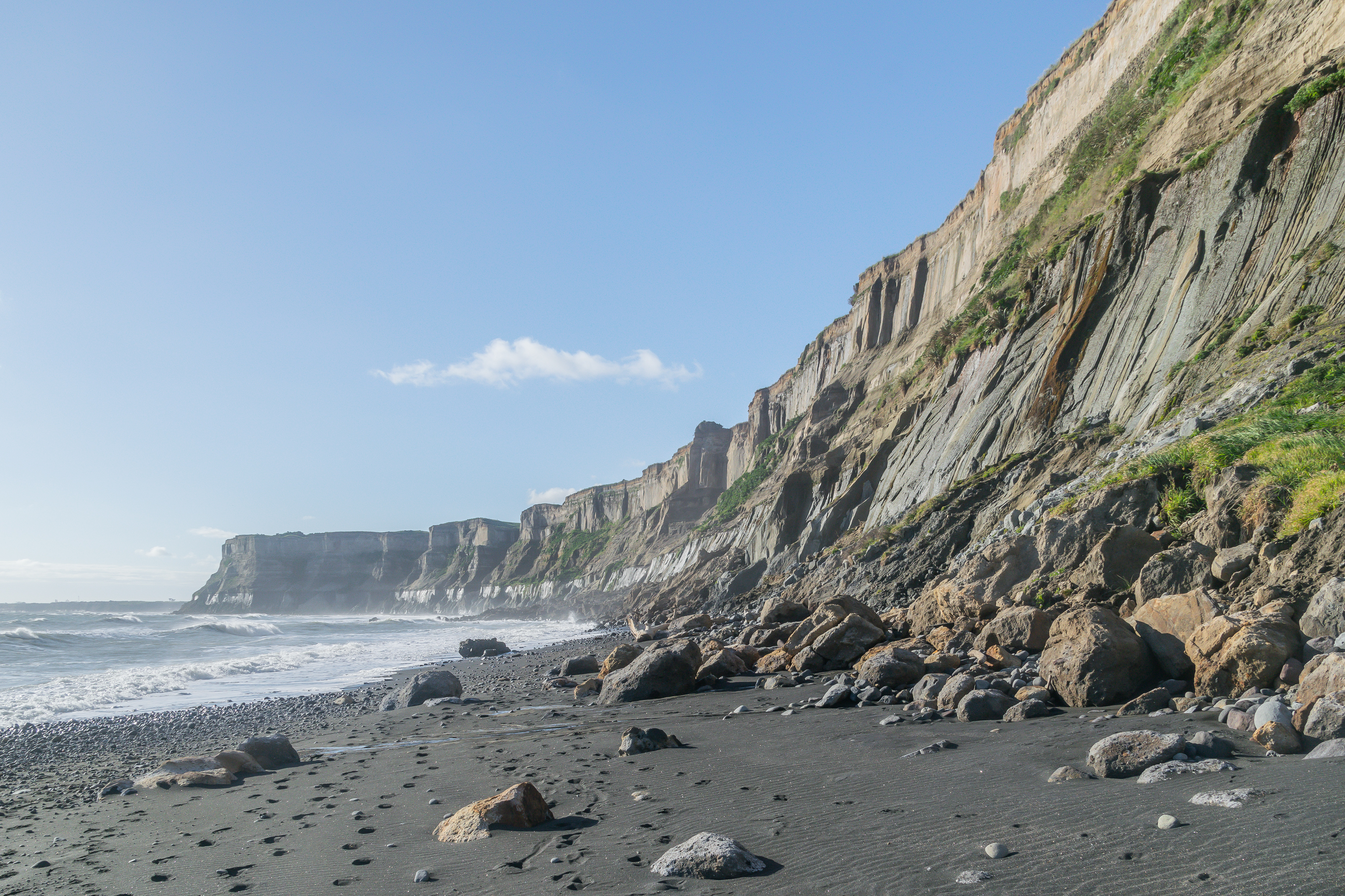 Waihi Beach Reserve near Hawera in Taranaki Region, North Island of New Zealand